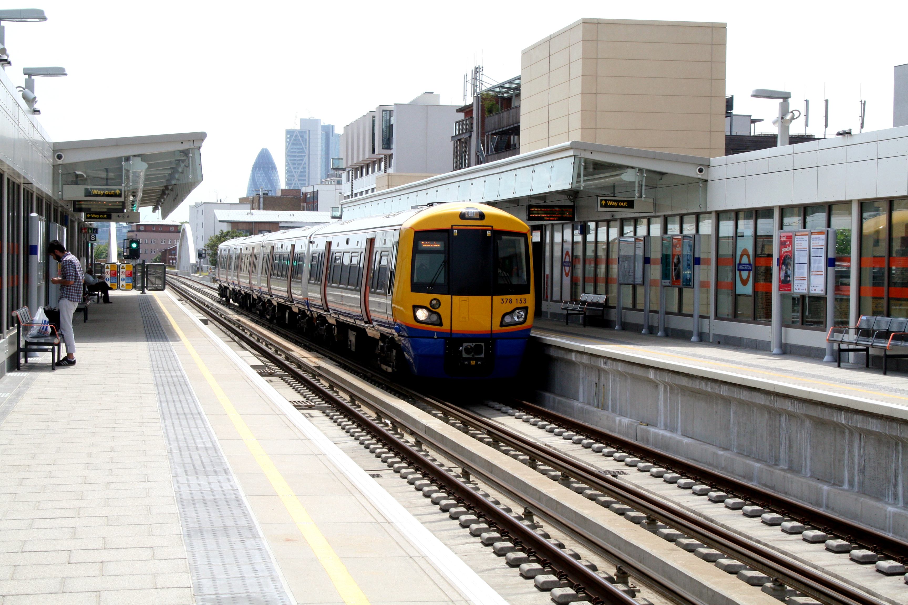 Haggerston Station, near to Bethnal Green, Tower Hamlets, Great Britain. Looking south, as unit No. 378 153 arrives with a northbound service to Dalston Junction.